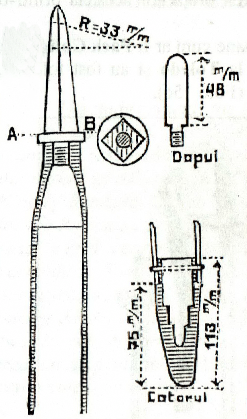 Lance for the the soldiers of Romanian Cavalry Corps, model 1908 - detail